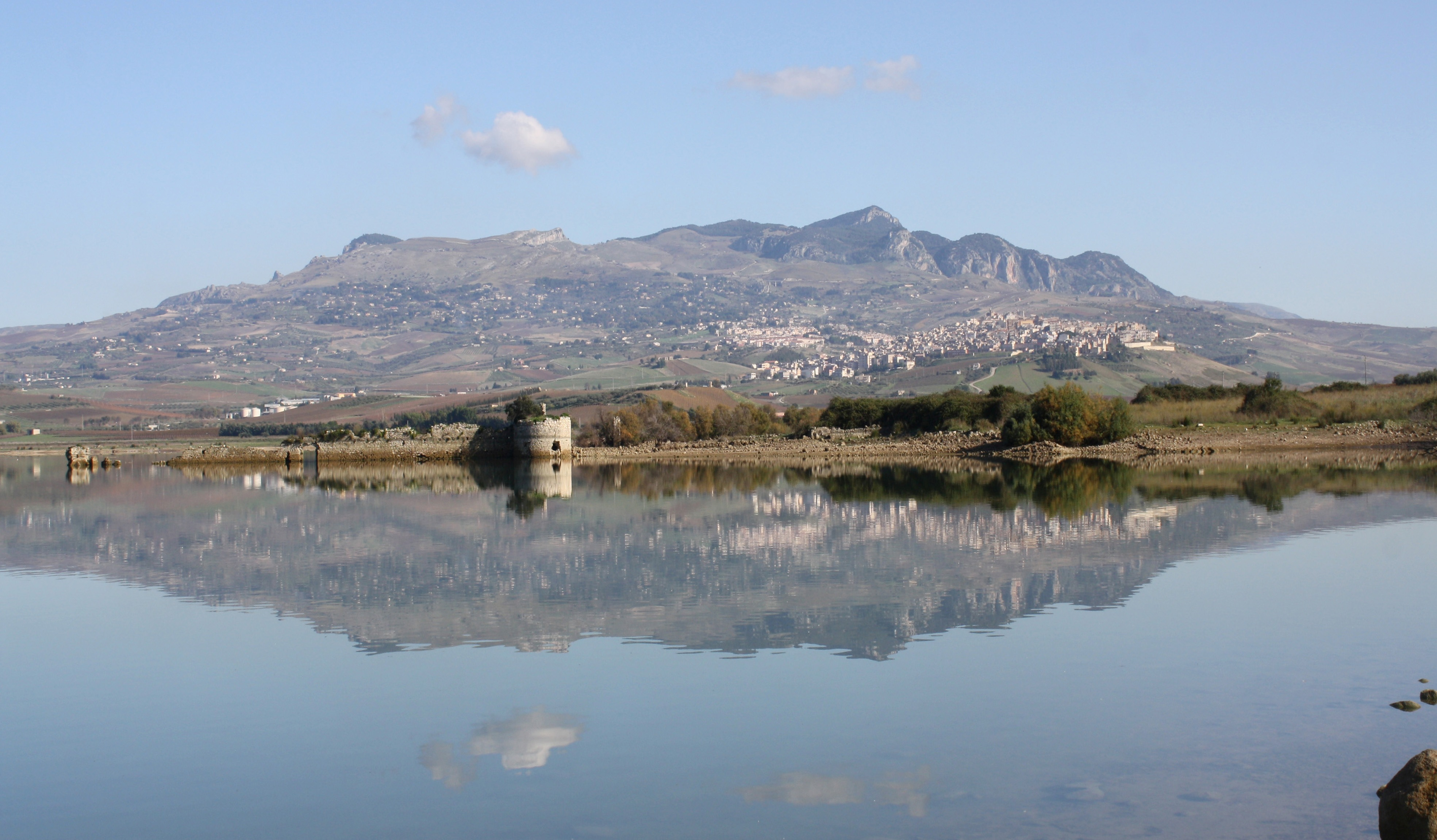 Landscape pf Sambuca di Sicilia from the Arancio lake, of Ennio Gurrera